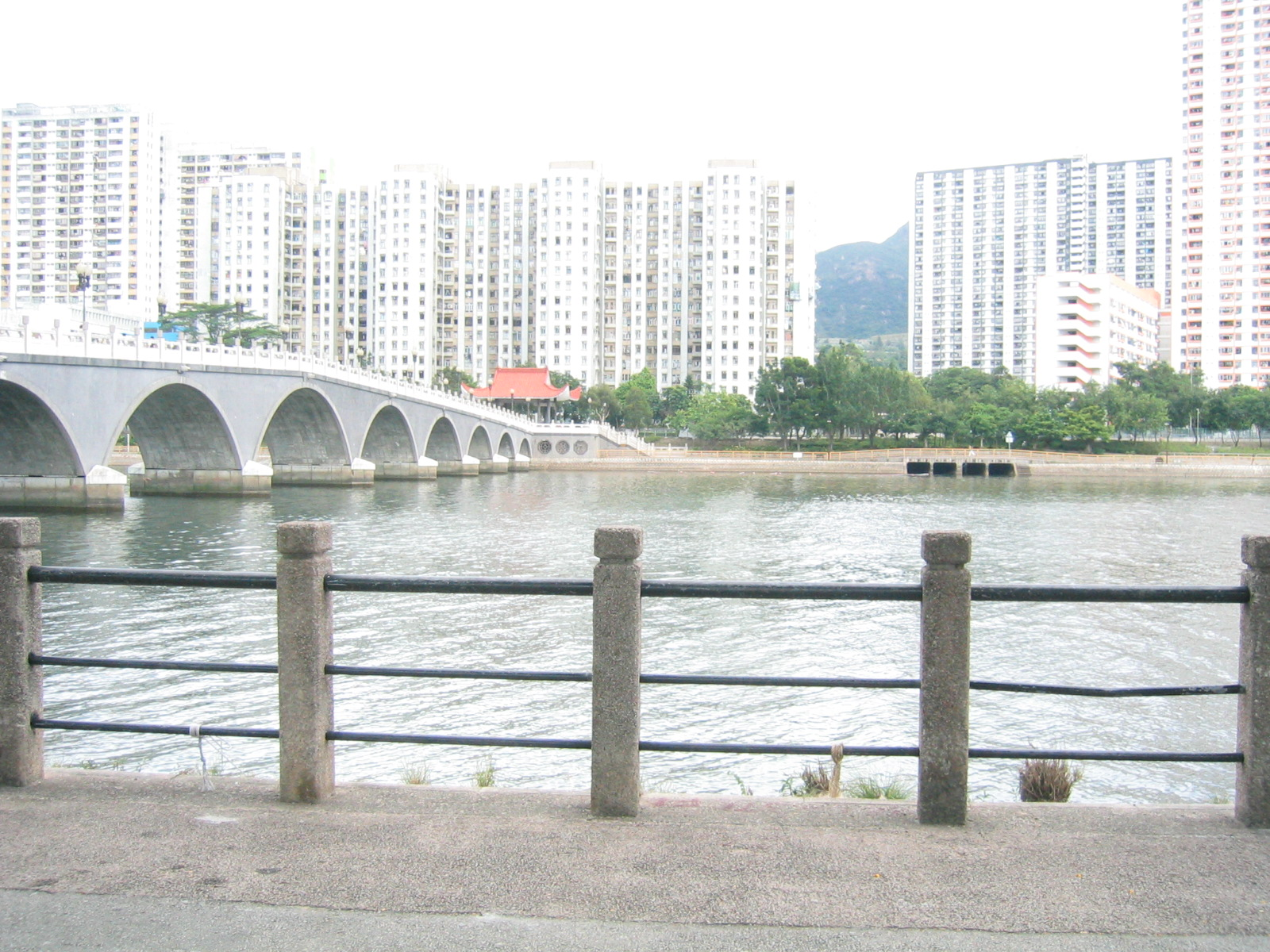 Shing Mun River and Lek Yuen Bridge at Shatin, Hong Kong.